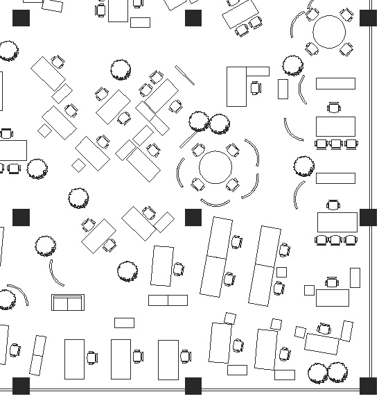 office landscape typical plan